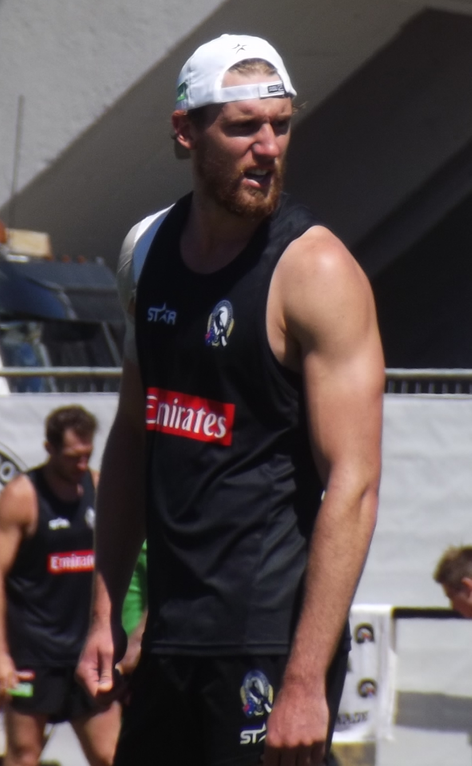 Lachlan Keeffe with Collingwood during an open training session at Olympic Park, Melbourne.